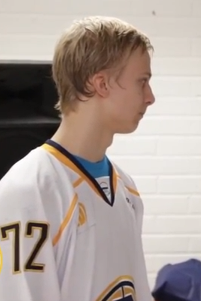 Jesse Ylönen, a Finnish hockey player during an interview in 2017.